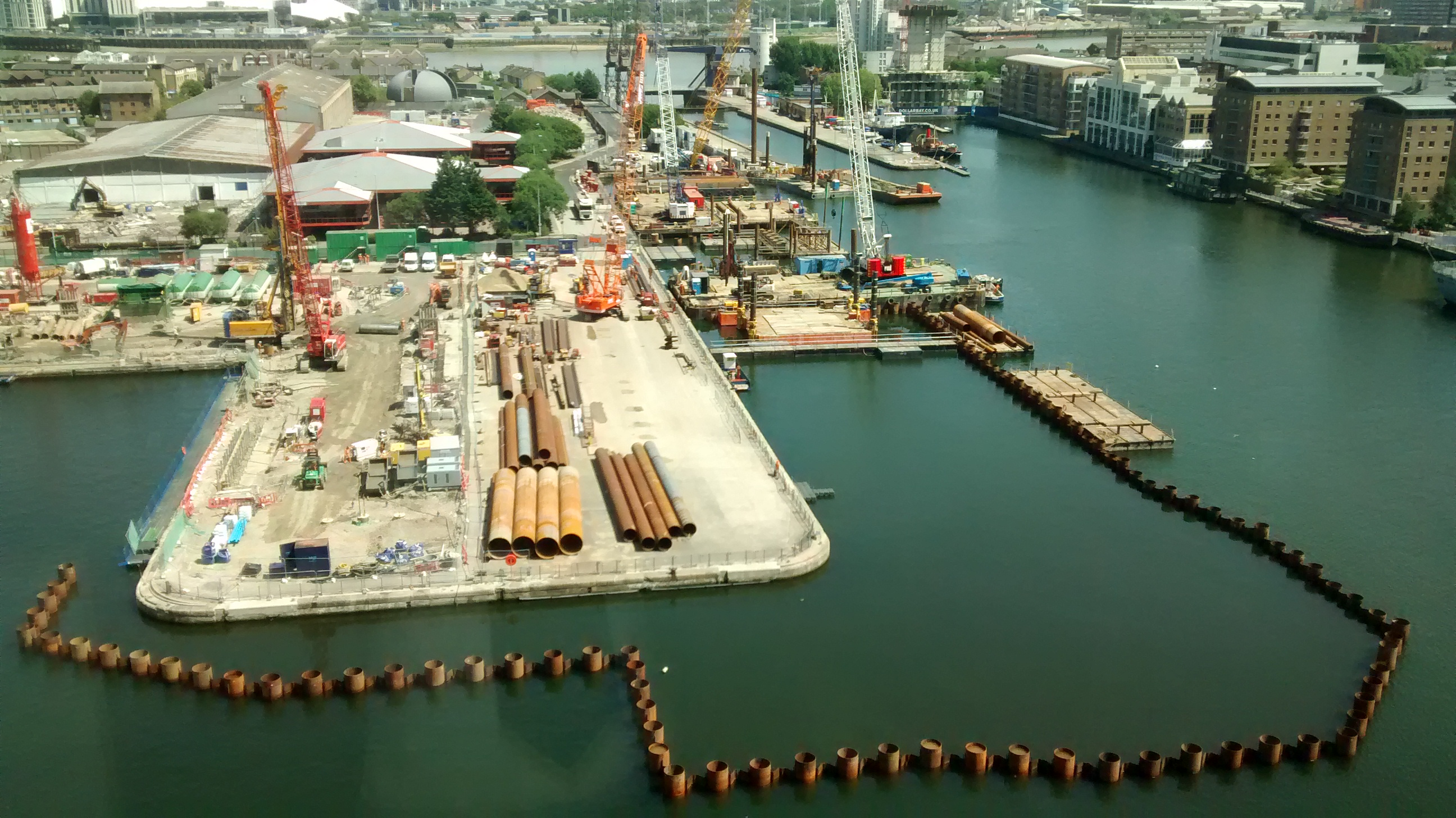 Wood Wharf under construction on 8 July 2015, as seen from Canary Wharf.